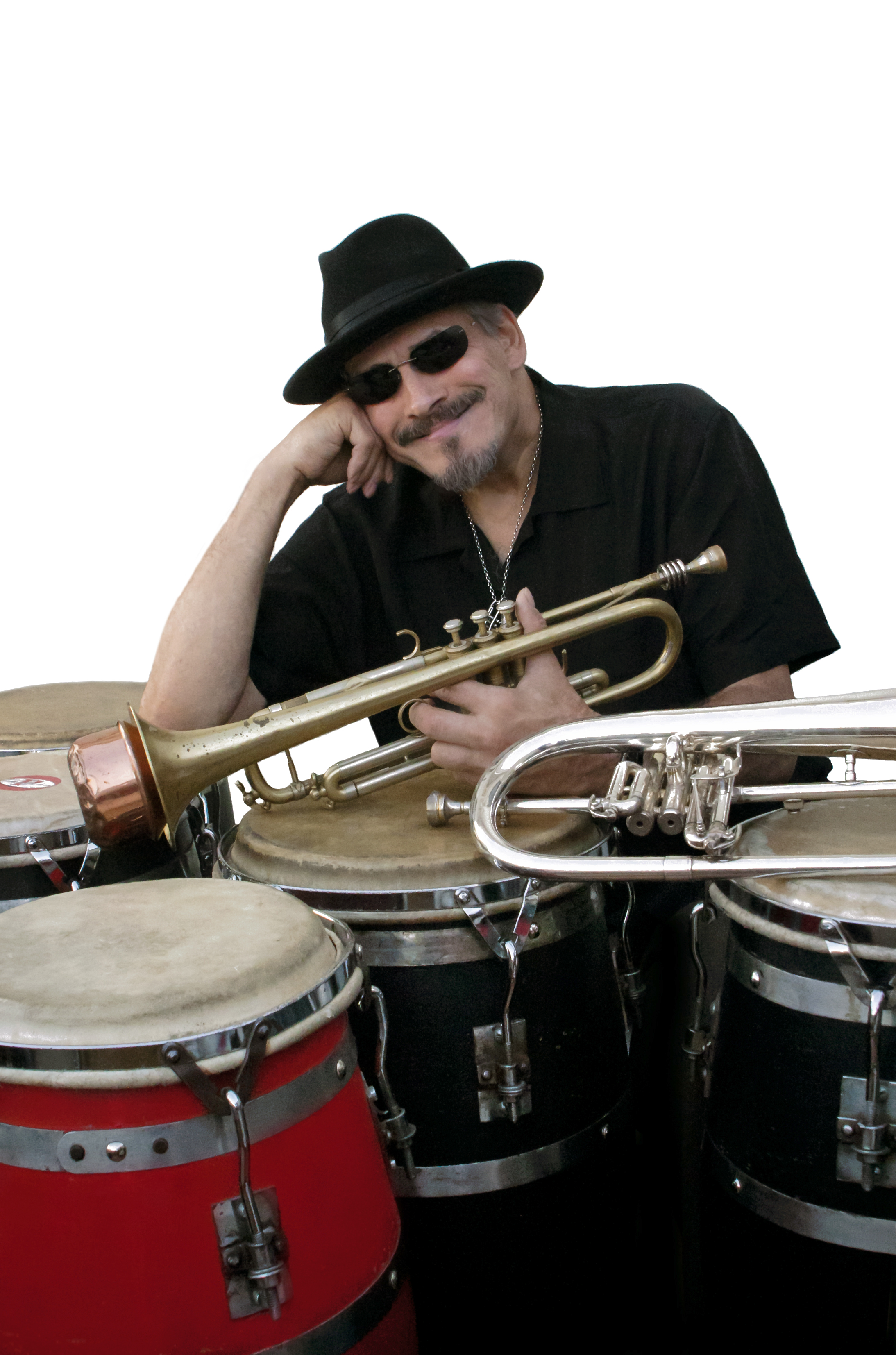 Jerry Gonzalez with his trumpets and congas